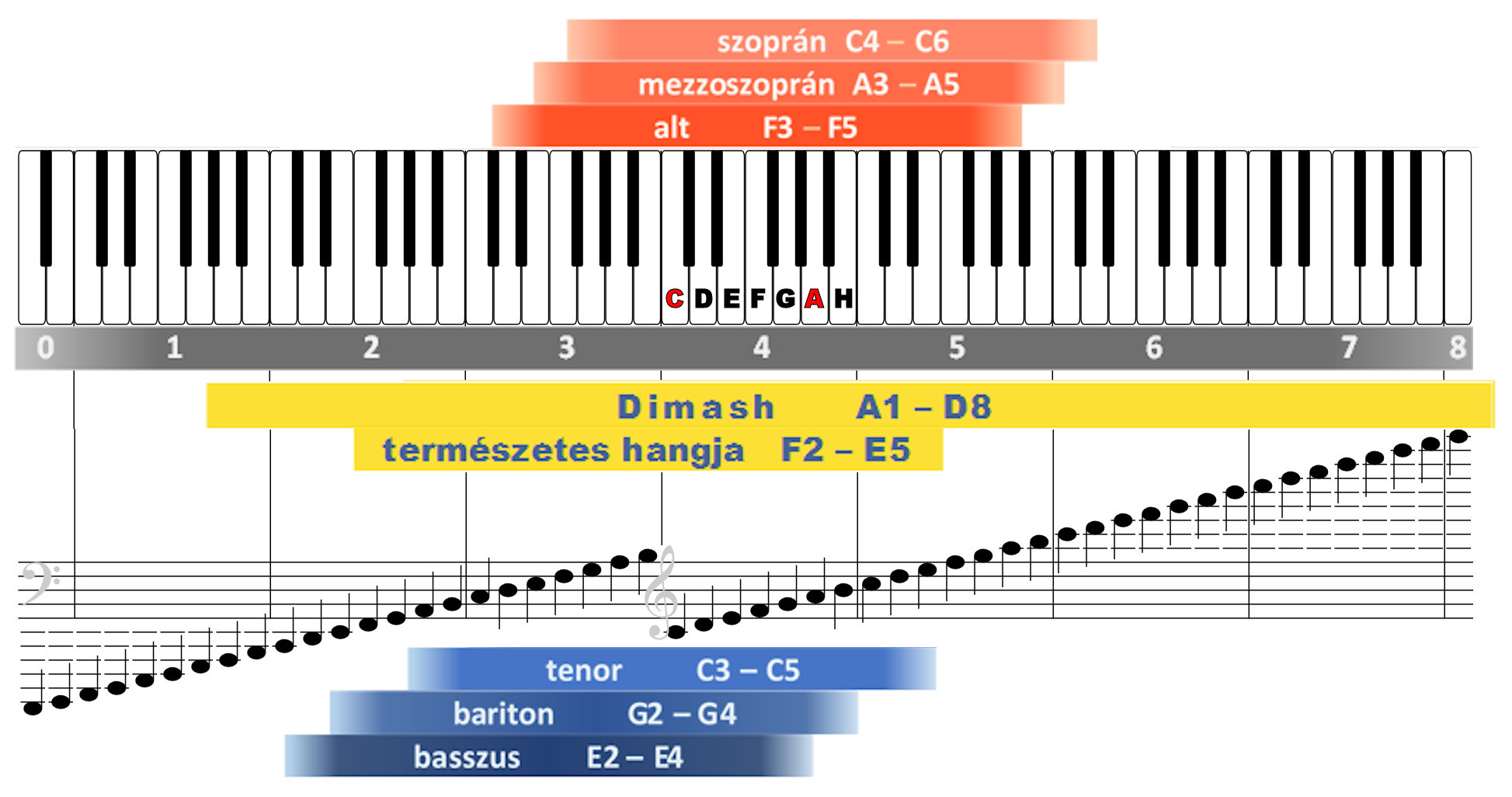 Dimash's vocal range with 88-key piano and voice types (Central Europe)